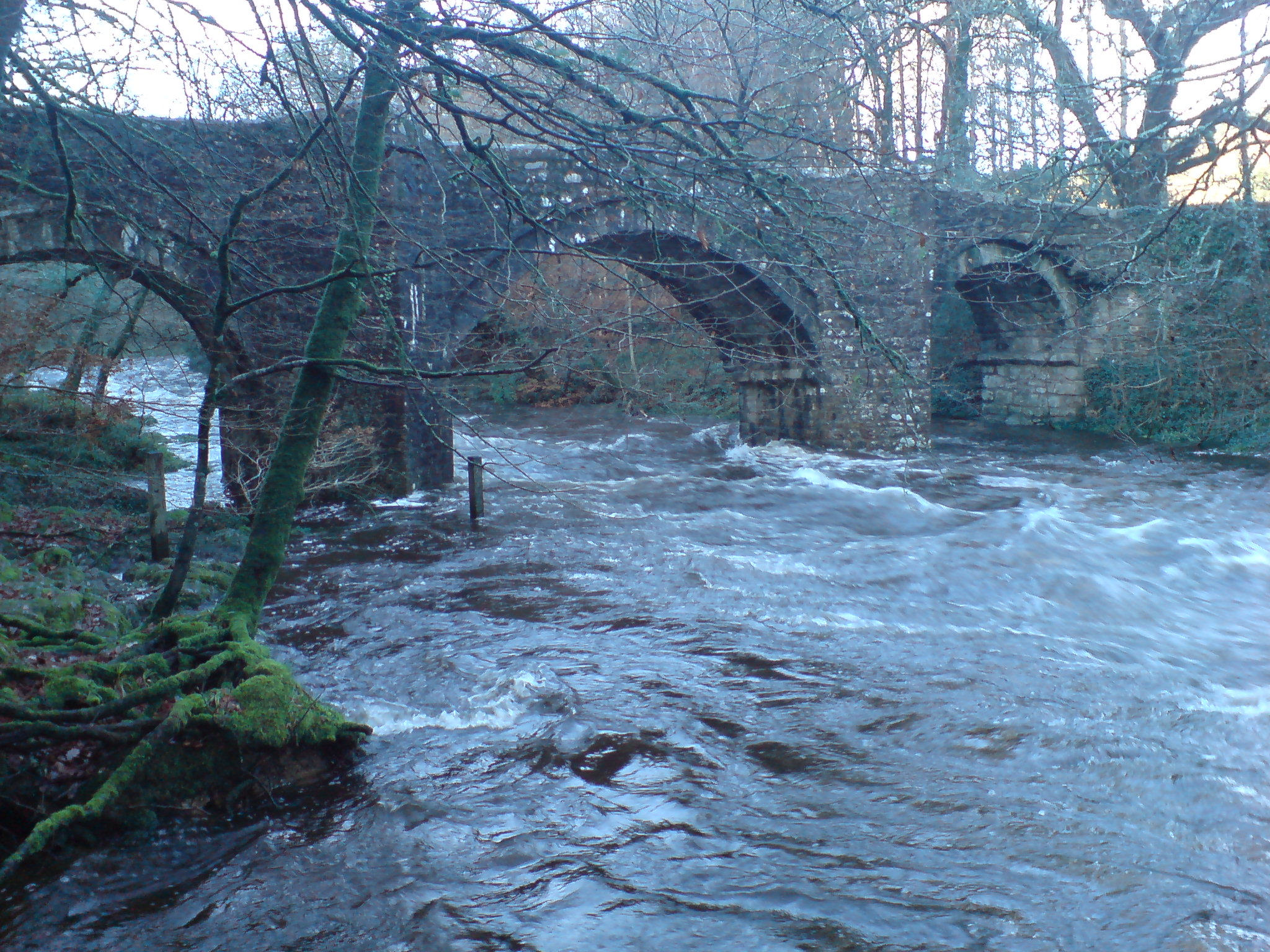 Author: Jamsta